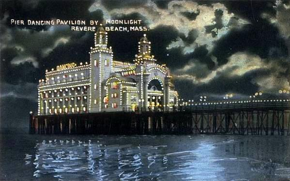 Pier Dancing Pavilion by Moonlight, Revere Beach, MA; from a c. 1910 postcard.